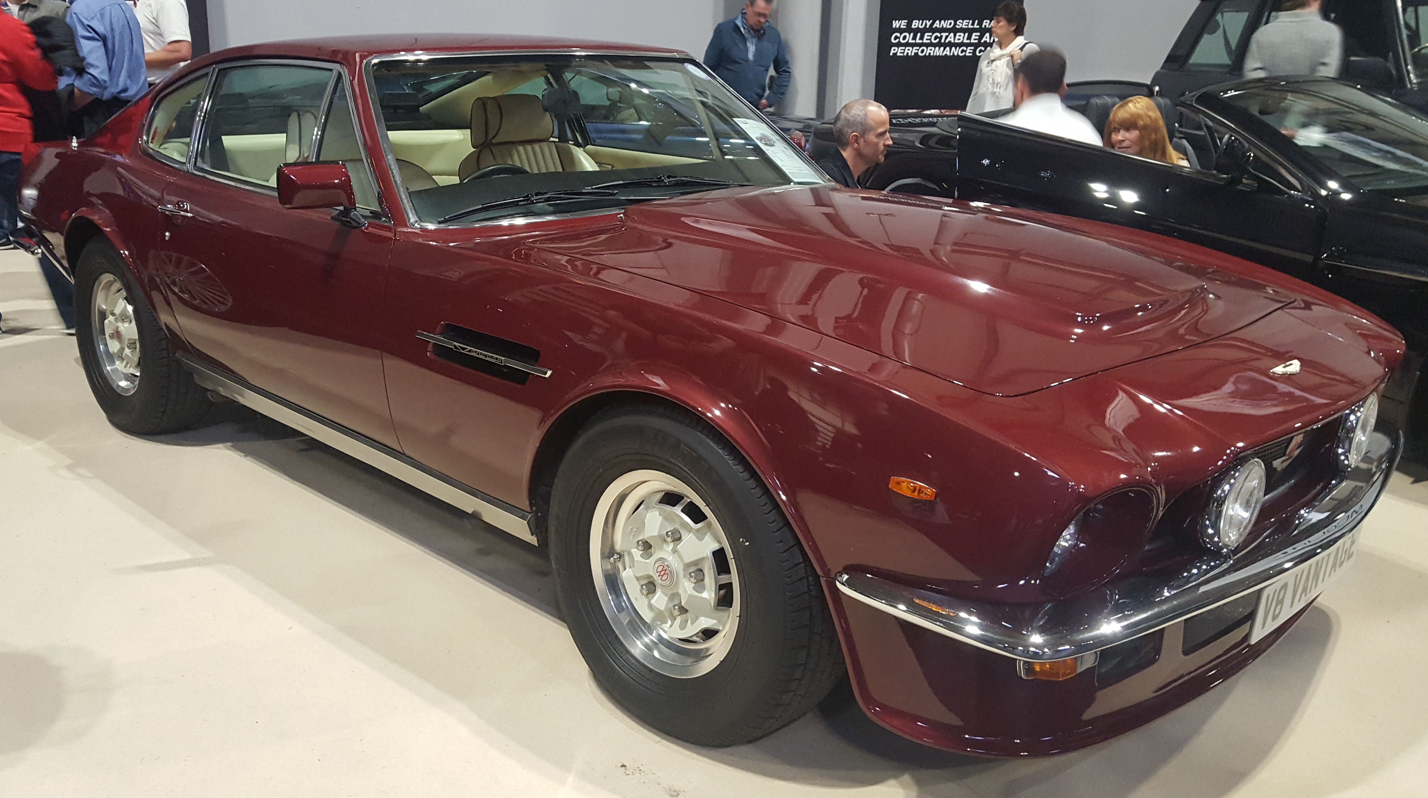 1982 Aston Martin V8 Vantage 5.3 Taken at the NEC Classic Motor Show 2017